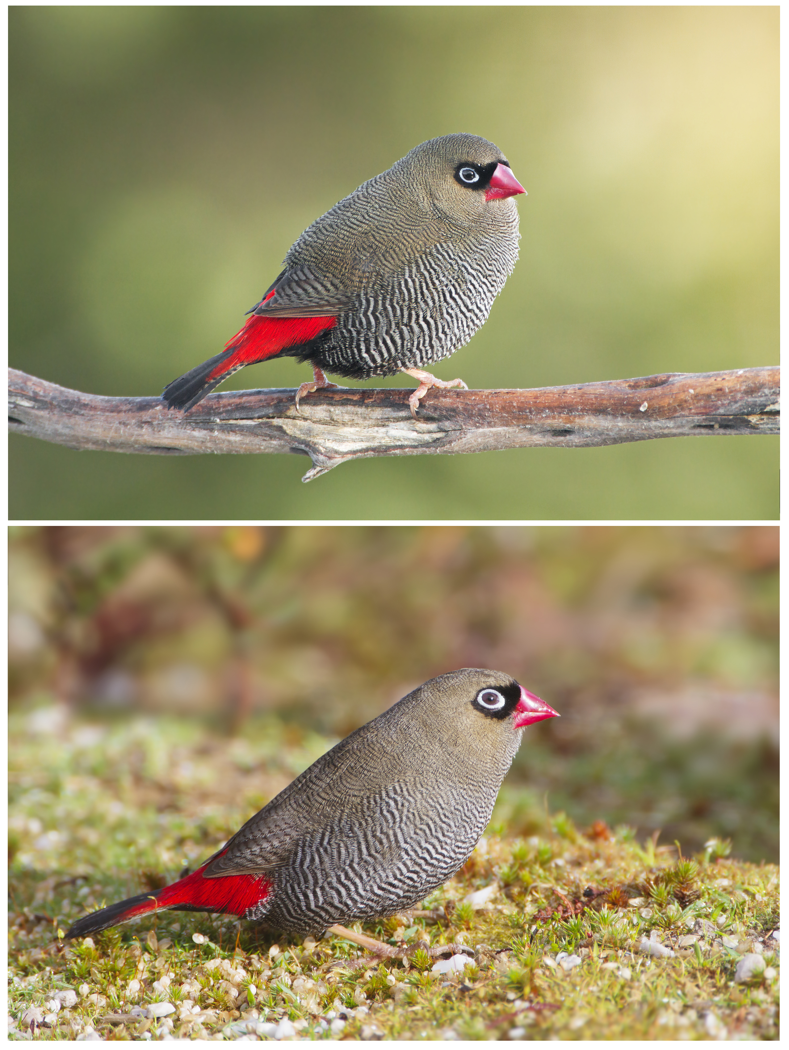 Combined picture of male and female Beautiful Firetail, for Wikipedia main page